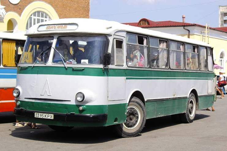 LAZ-695M in Eupatoria, railway station, Ukraine. Built 1974.